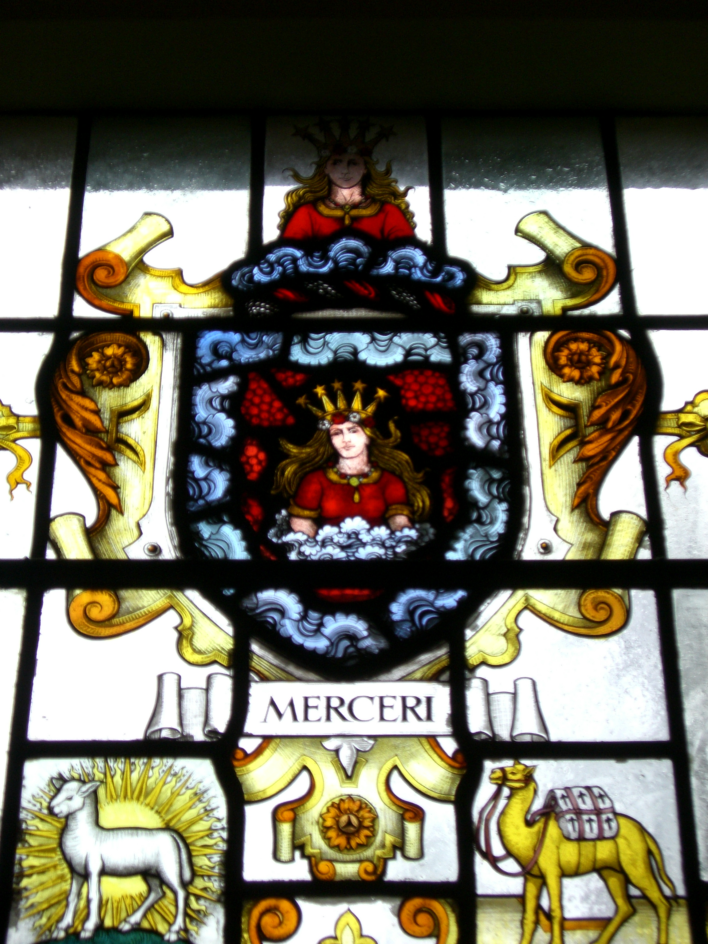 Stained glass window in the Museum of the History of Science, showing the crest of the Worshipful Company of Mercers.